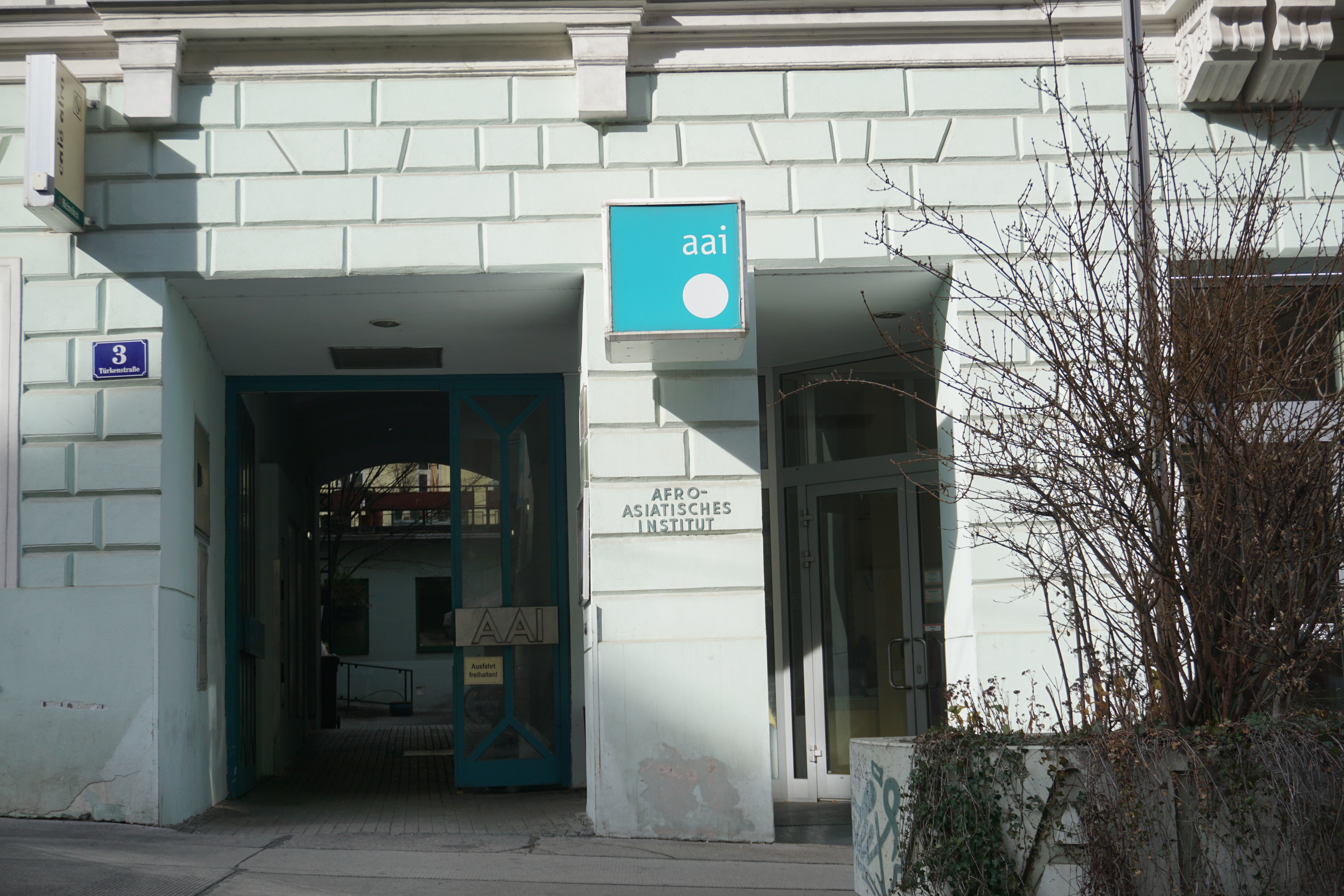 This is the entry of the "Afro-Asiatische Institut Wien" in Vienna